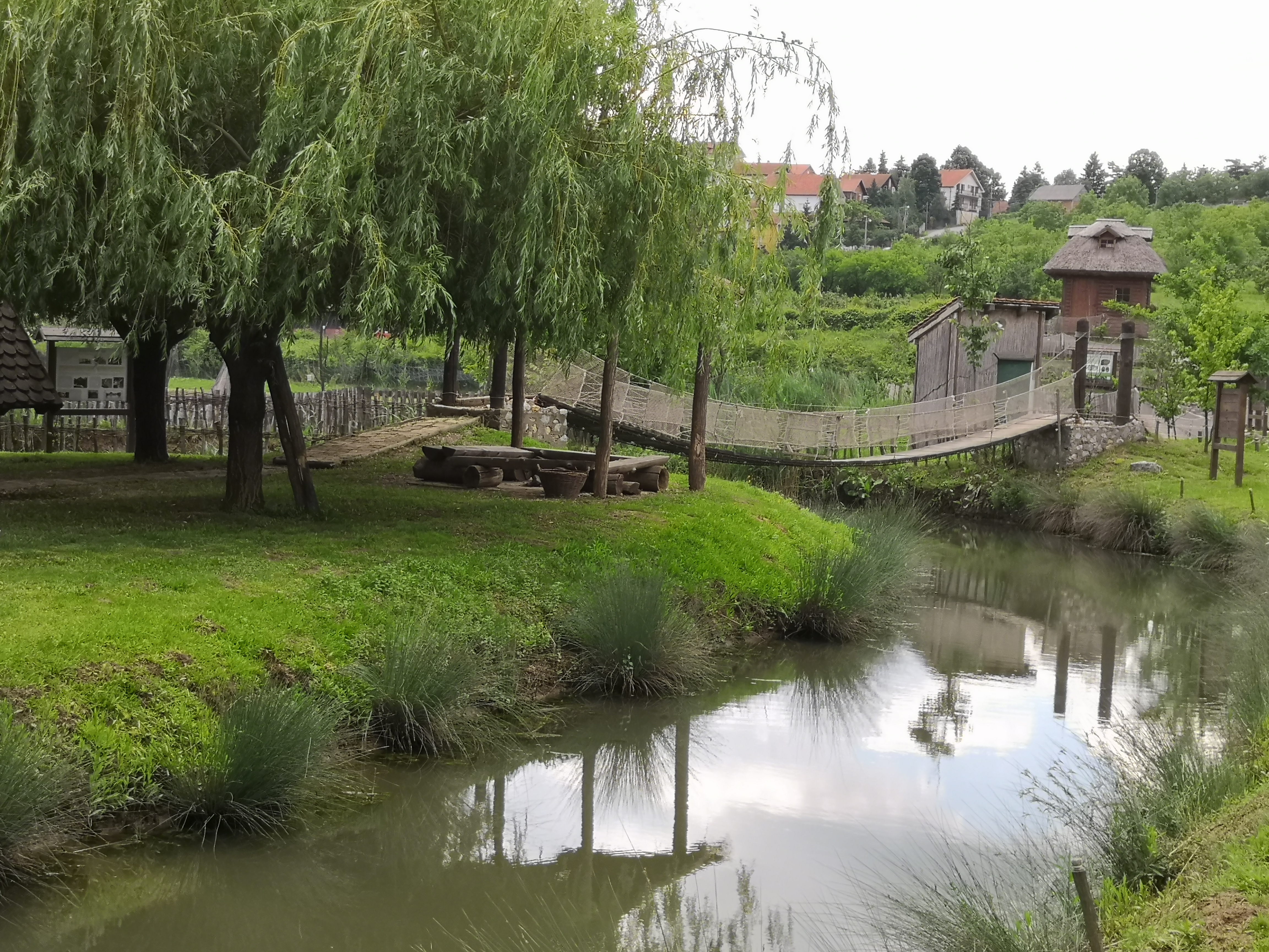 Radmilovac